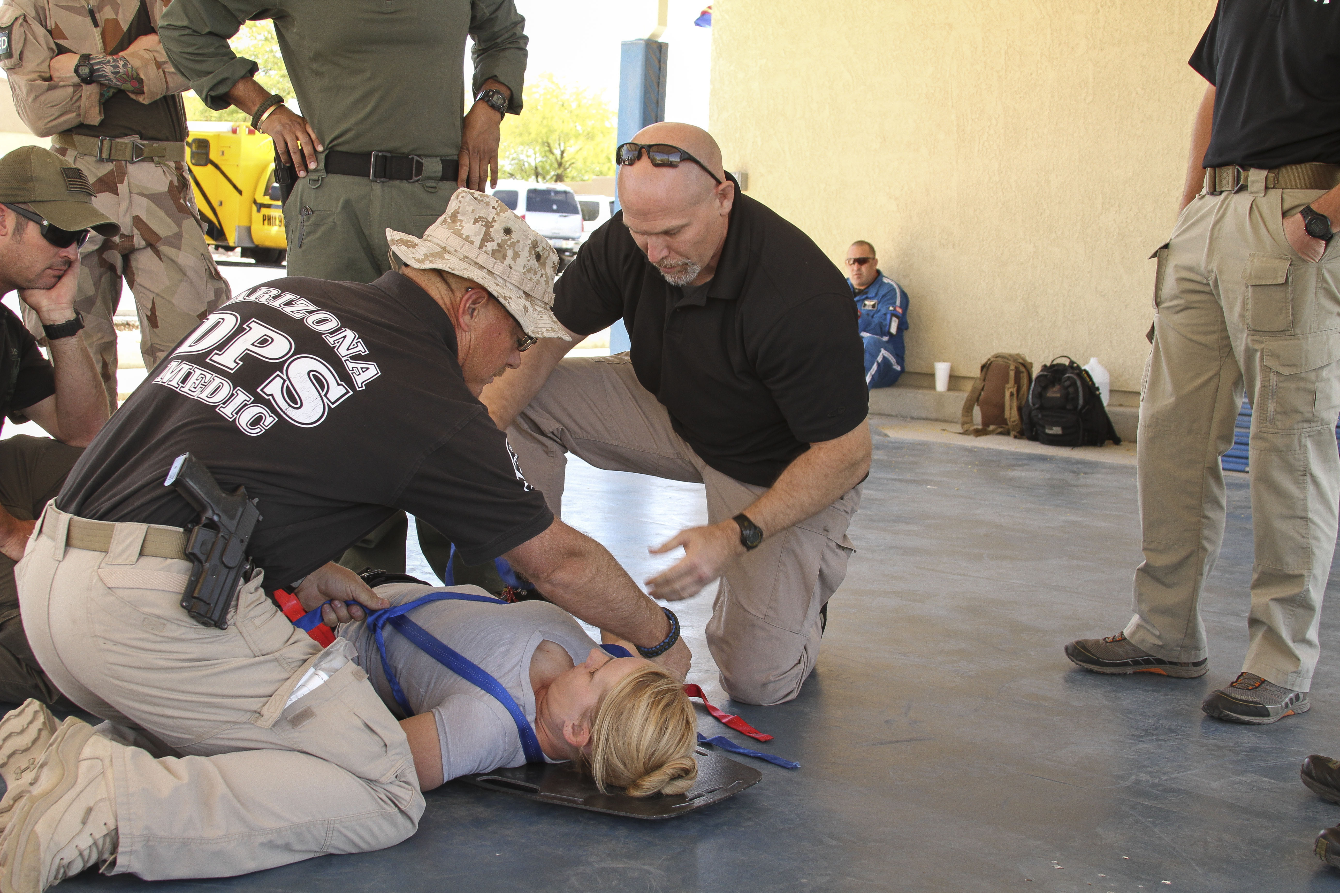 Members from the U.S. Secret Service, Swedish Air Force, Air Evacuation Services, and local police departments practice securing an injured person to a litter during Tactical Combat Casualty Care training at the Pima County Training Center in Tucson, Ariz., May 6, 2014. TCCC introduces evidence-based, life-saving techniques and strategies for providing the best trauma care on the battlefield. TCCC is a training event held during Exercise ANGEL THUNDER. Exercise ANGEL THUNDER is a joint-interagency-coalition annual exercise that supports DoD’s training requirements for Personnel Recovery responsibilities through high–fidelity exercises. Exercise ANGEL THUNDER provides the most realistic PR training environment available to USAF Rescue forces, as well as their joint, interagency, and coalition partners. (U.S. Air Force photo by Tech. Sgt. Heather R. Redman/Released)